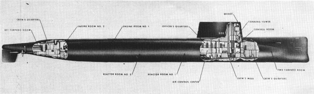 Contemporary cutaway of USS Triton (SSRN-586) - “Sailing with the Silent Service” Page 10 - All Hands (March 1959)